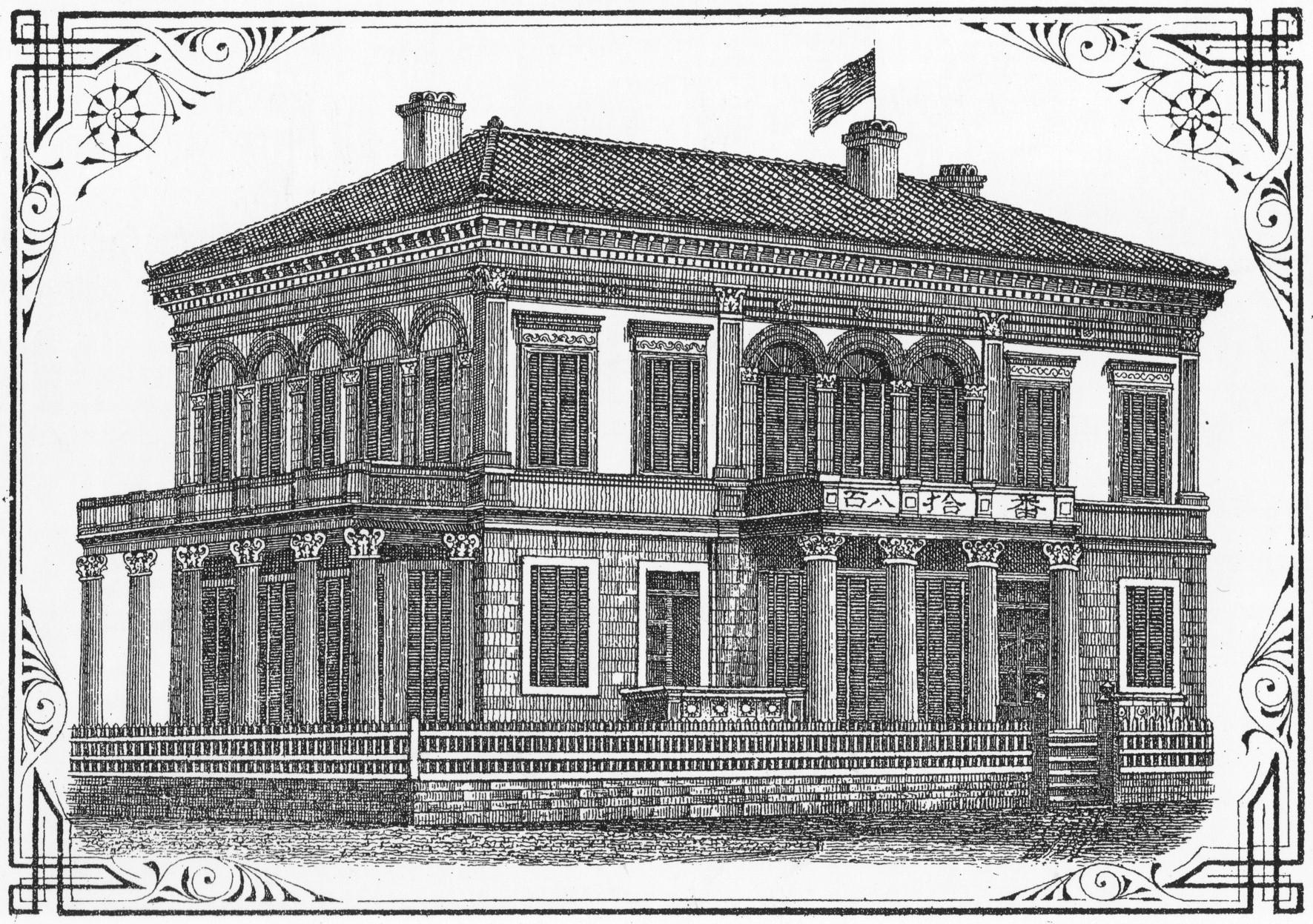 Home of Groesser at Yokohama